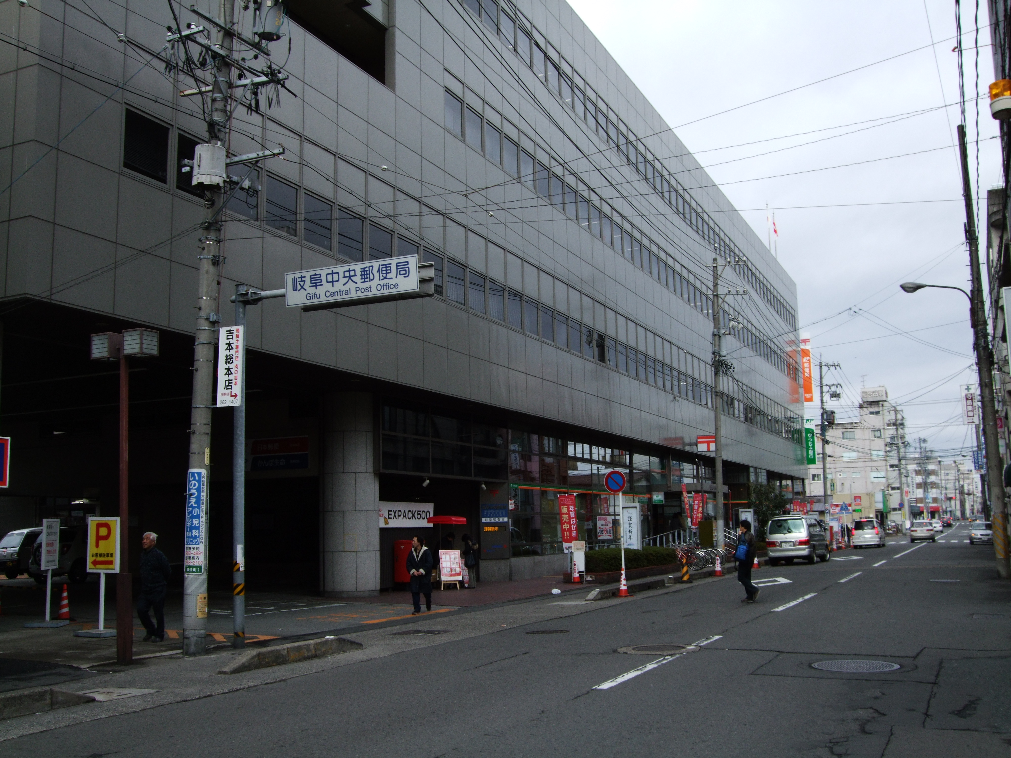 Gifu_central_post_office